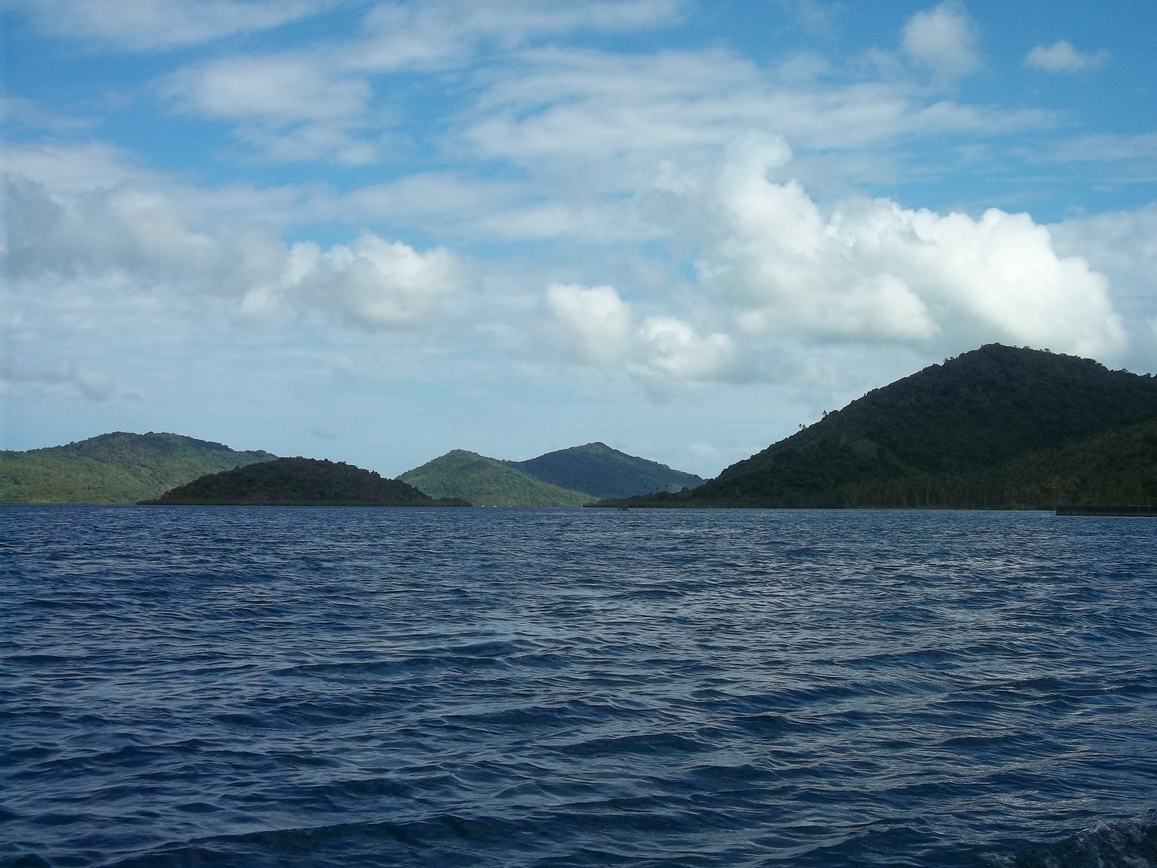 Islands around Siantan, Riau Islands Province, Indonesia